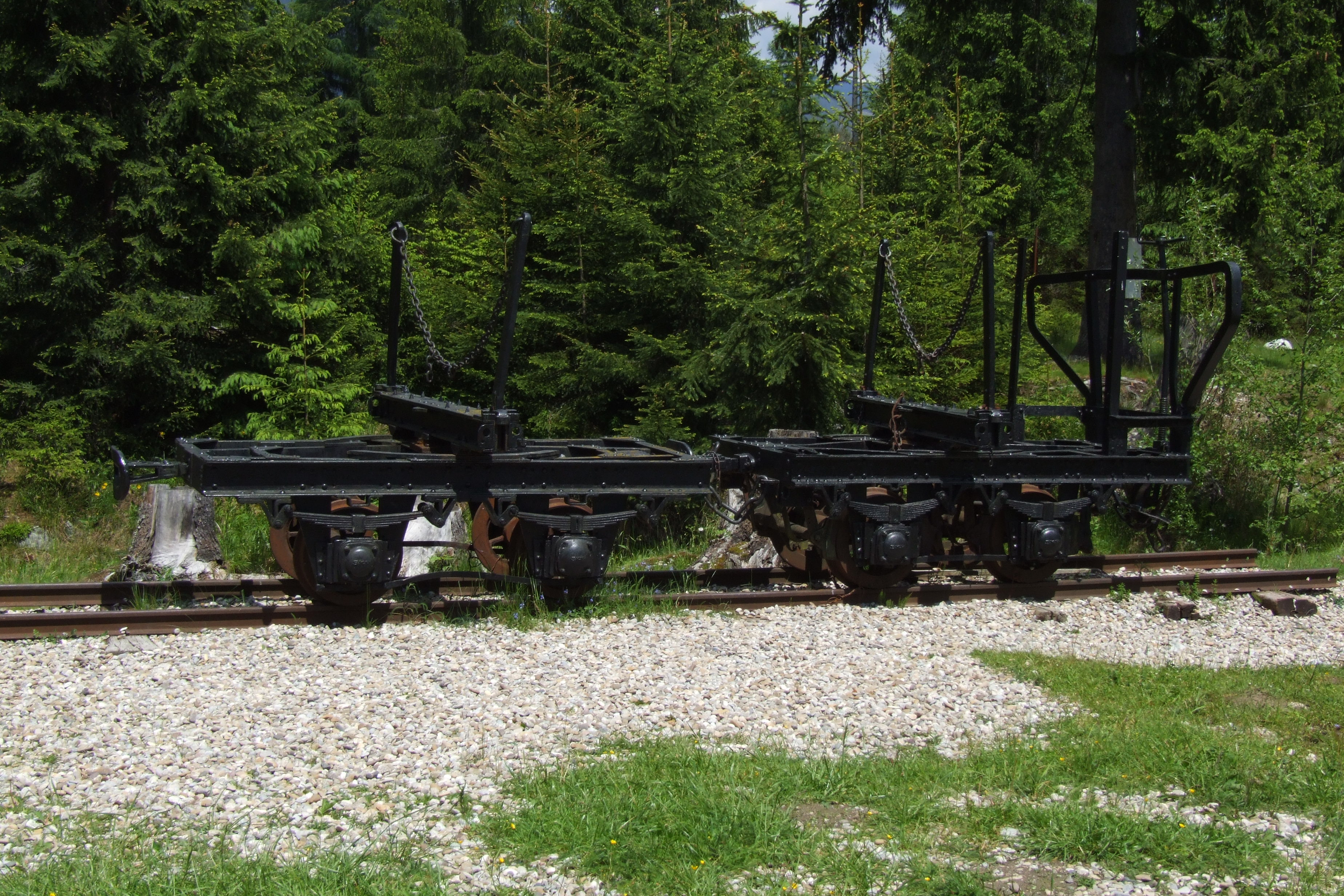 Museum of the Liptov village in Pribylina - wood carriage